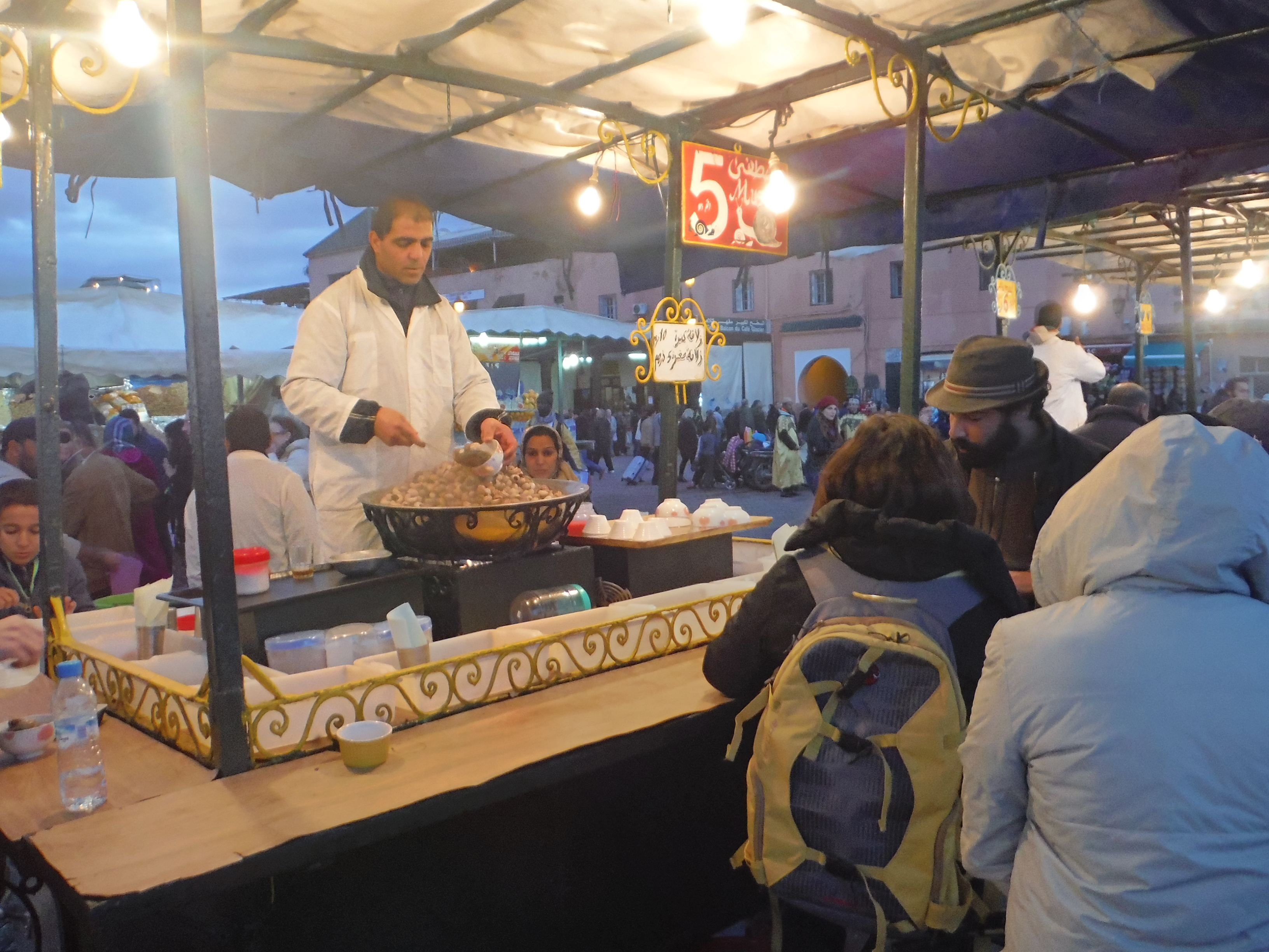 Snail booths at Jemaa El Fnaa, Marrakech